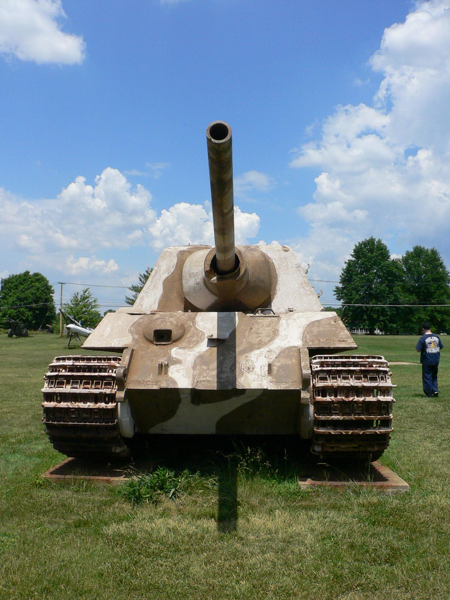 Picture taken by myself, Mark Pellegrini, at the United States Army Ordnance Museum (Aberdeen Proving Ground, MD) on June 12, 2007.